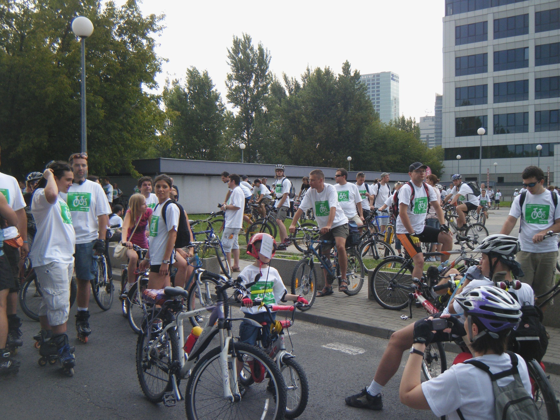 The Criticall Mass comemorating Warsaw Uprising (2011)